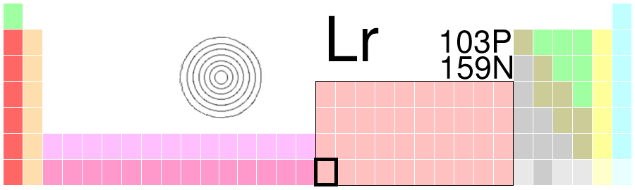 Created by User:Ahoerstemeier similar to the other element boxes